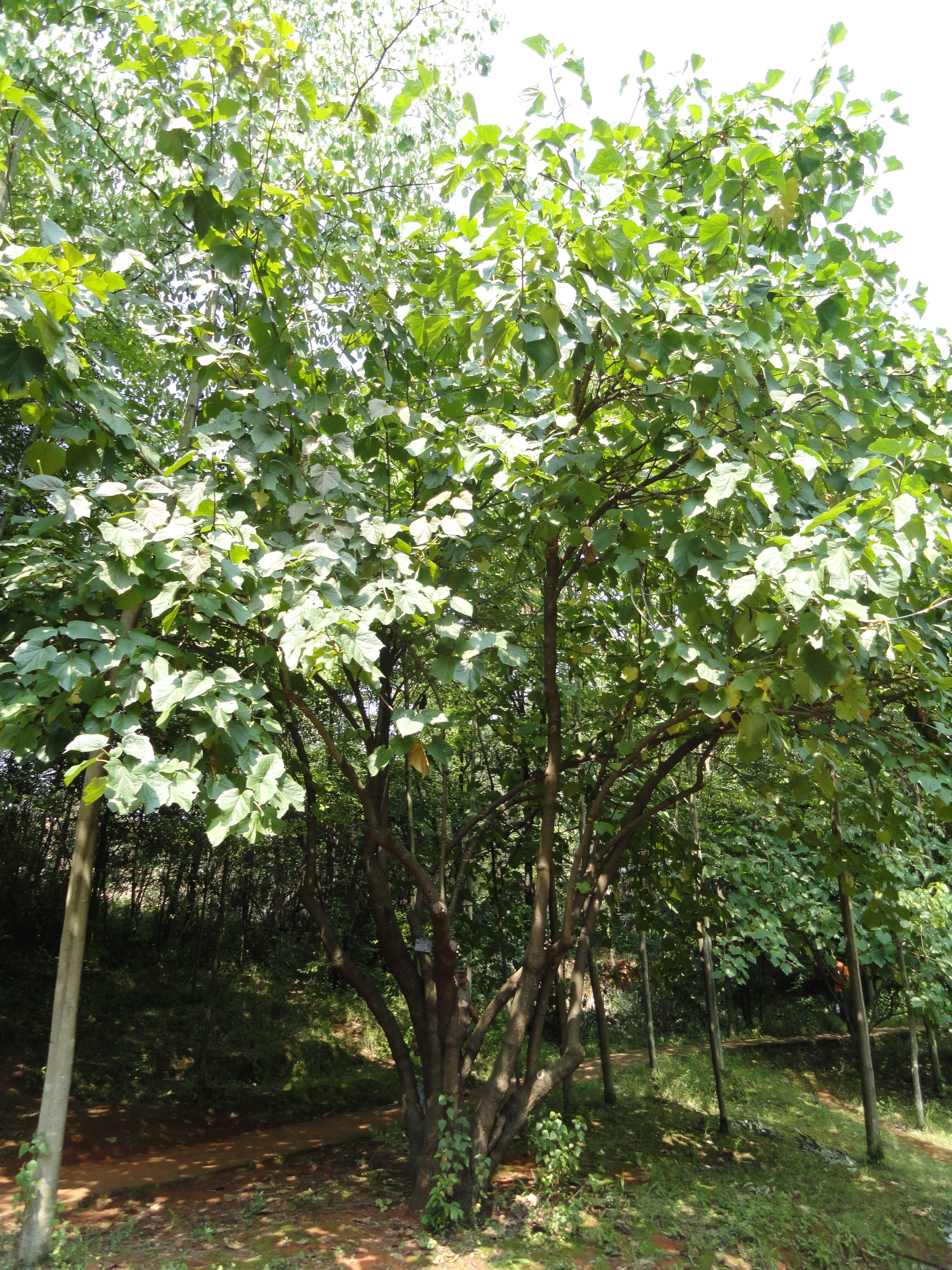 Plant specimen in the Kunming Botanical Garden, Kunming, Yunnan, China.